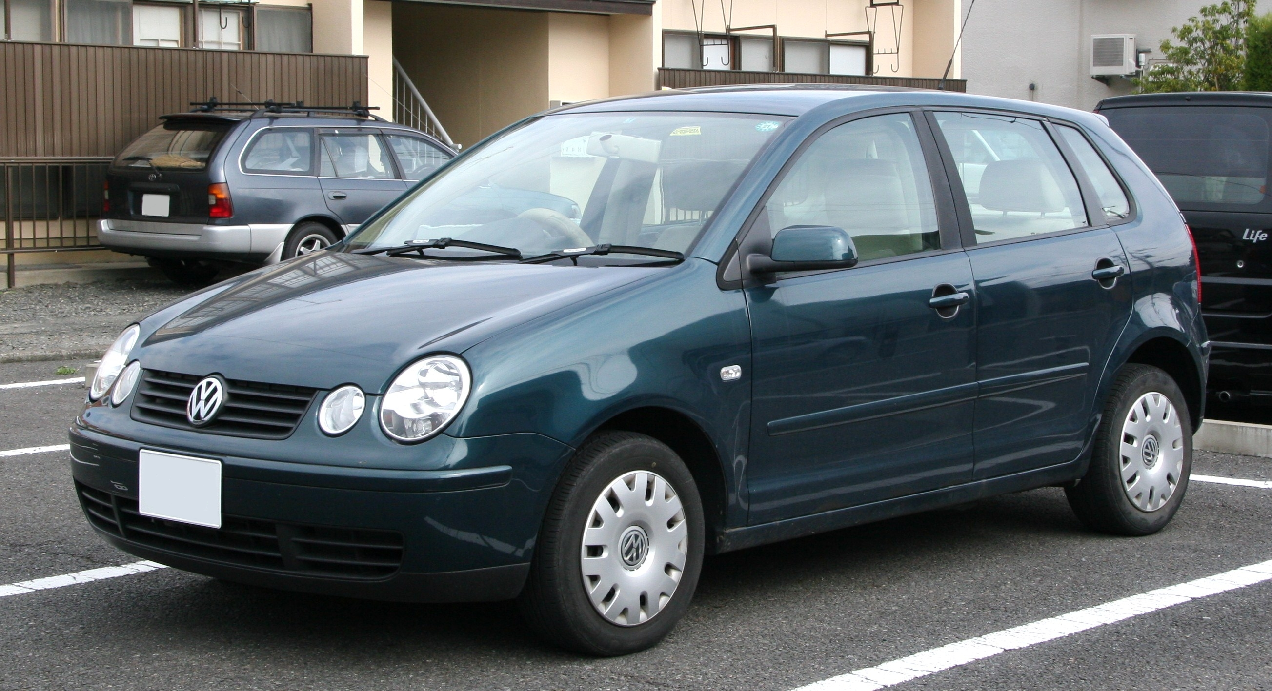 VW Polo IV